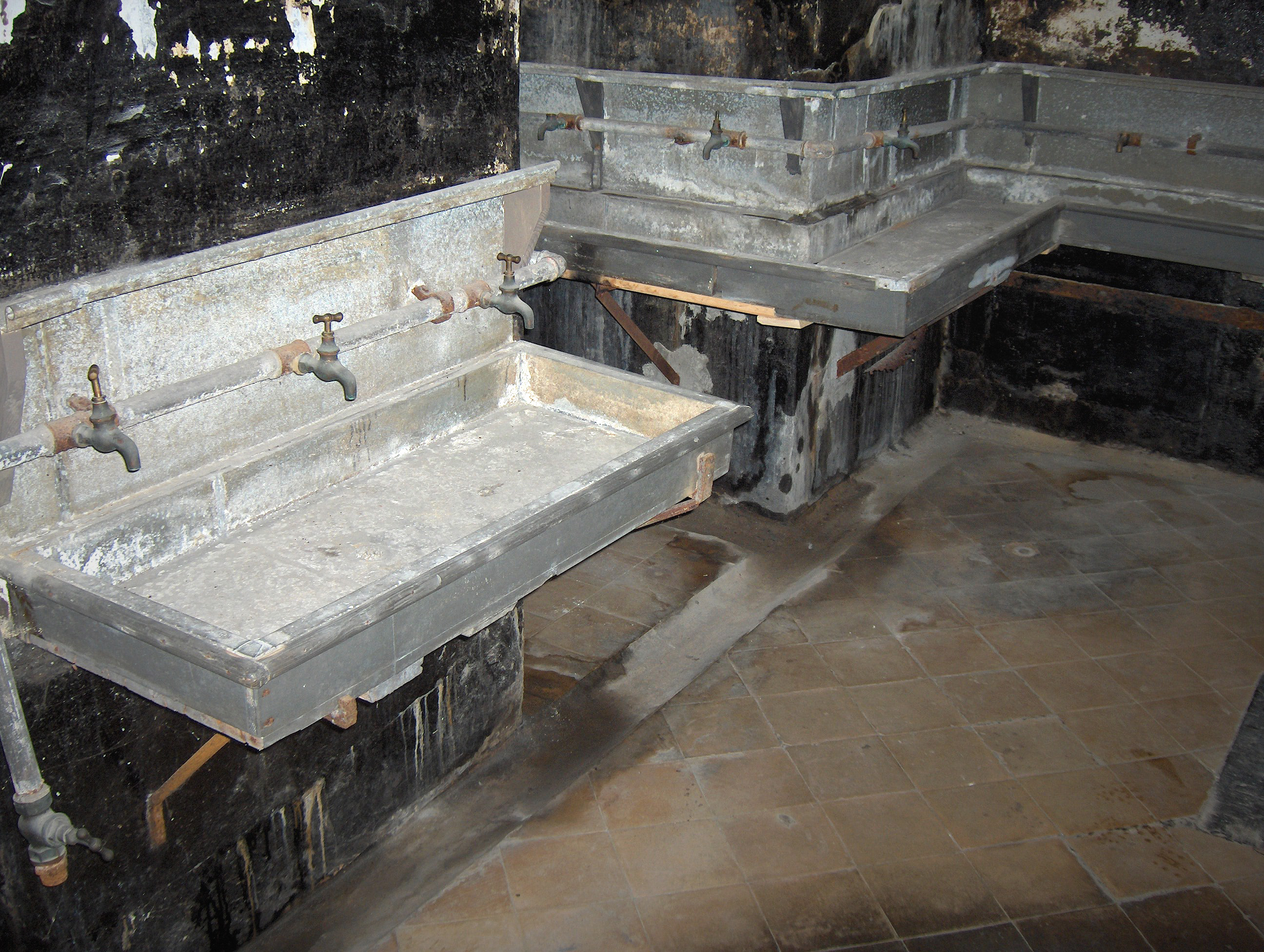 Washing facilities; Fort van Breendonk, Belgium